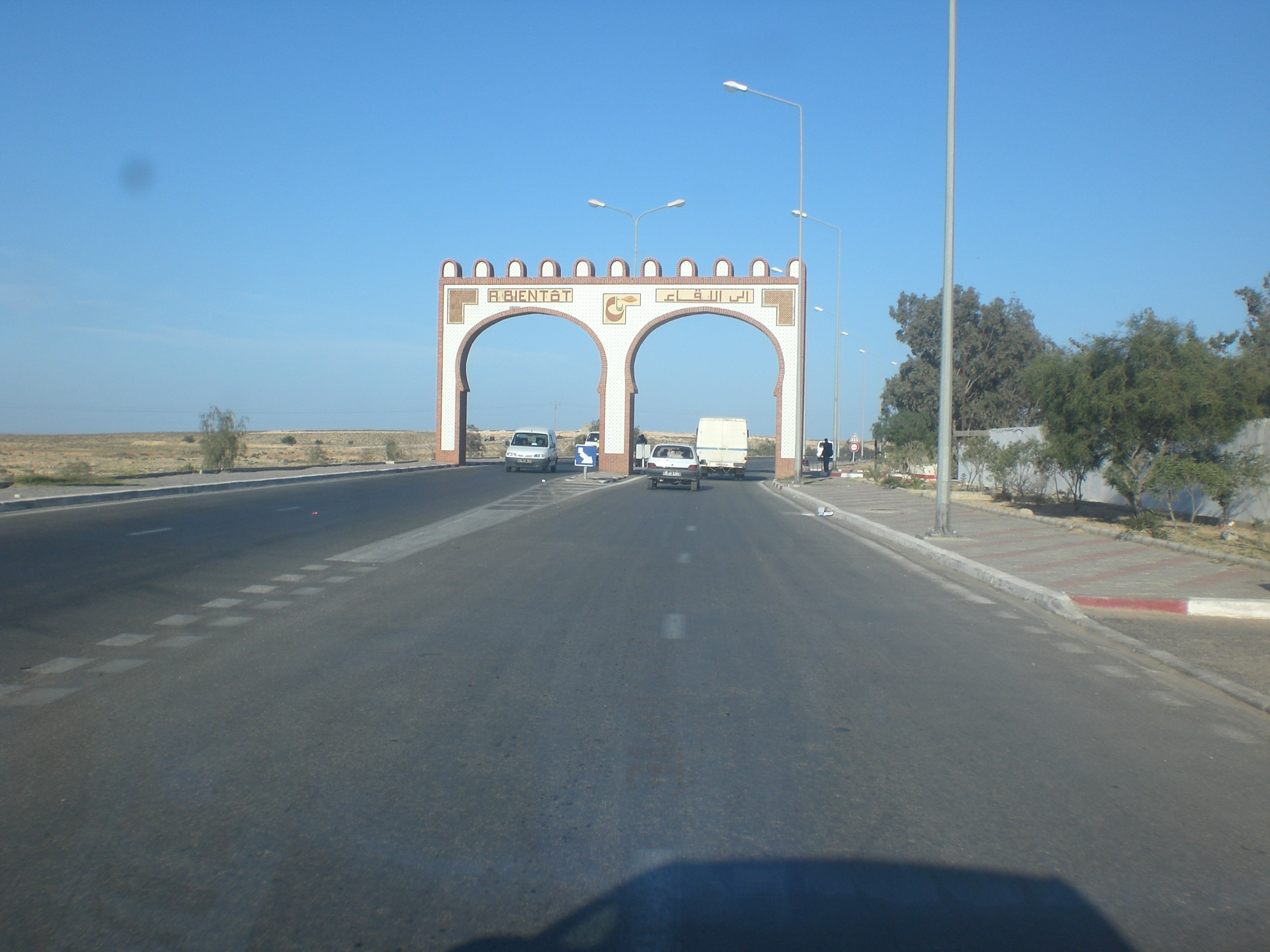 A Tunisian town, El Hamma